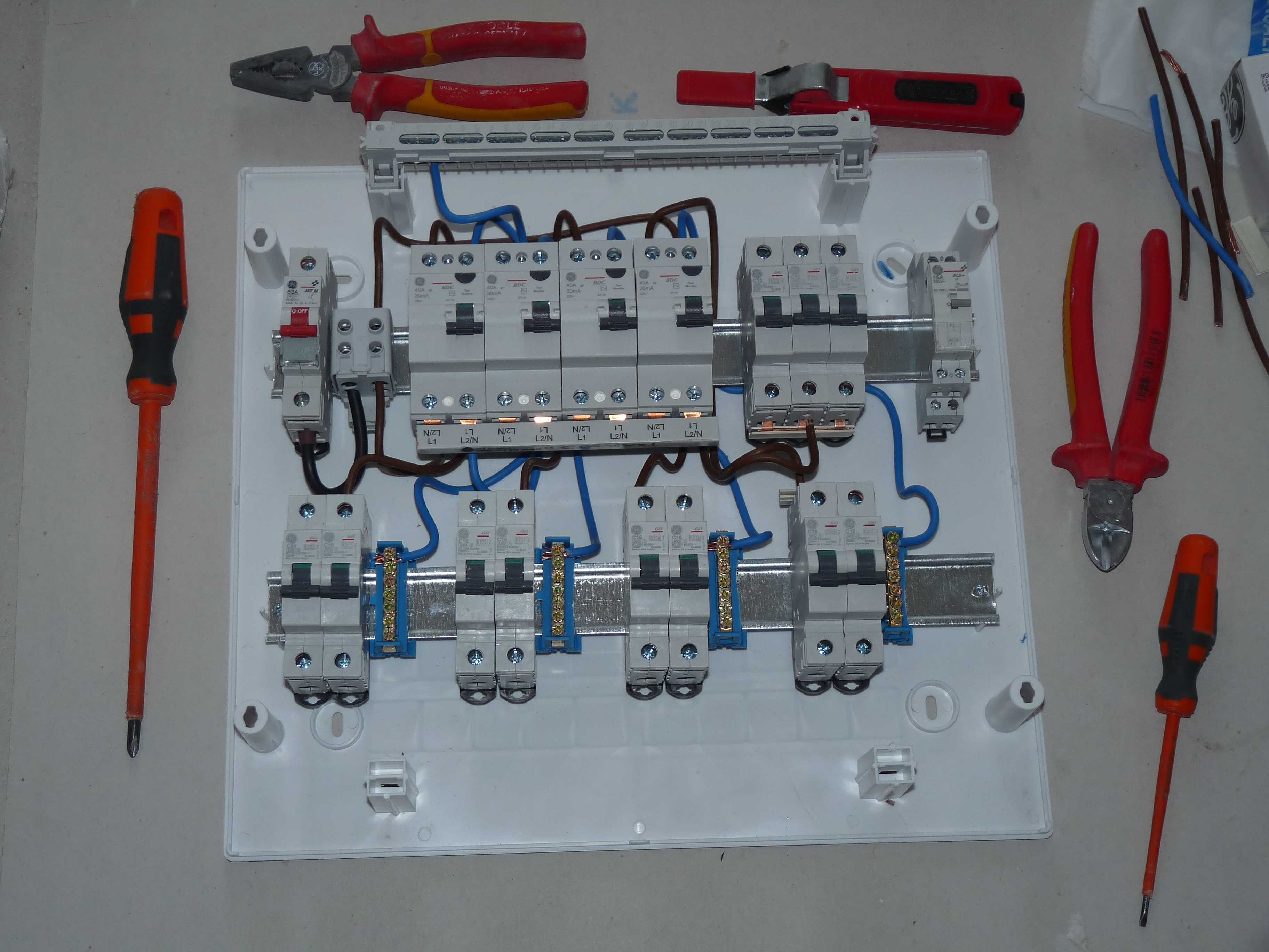 Step 2 - wirng